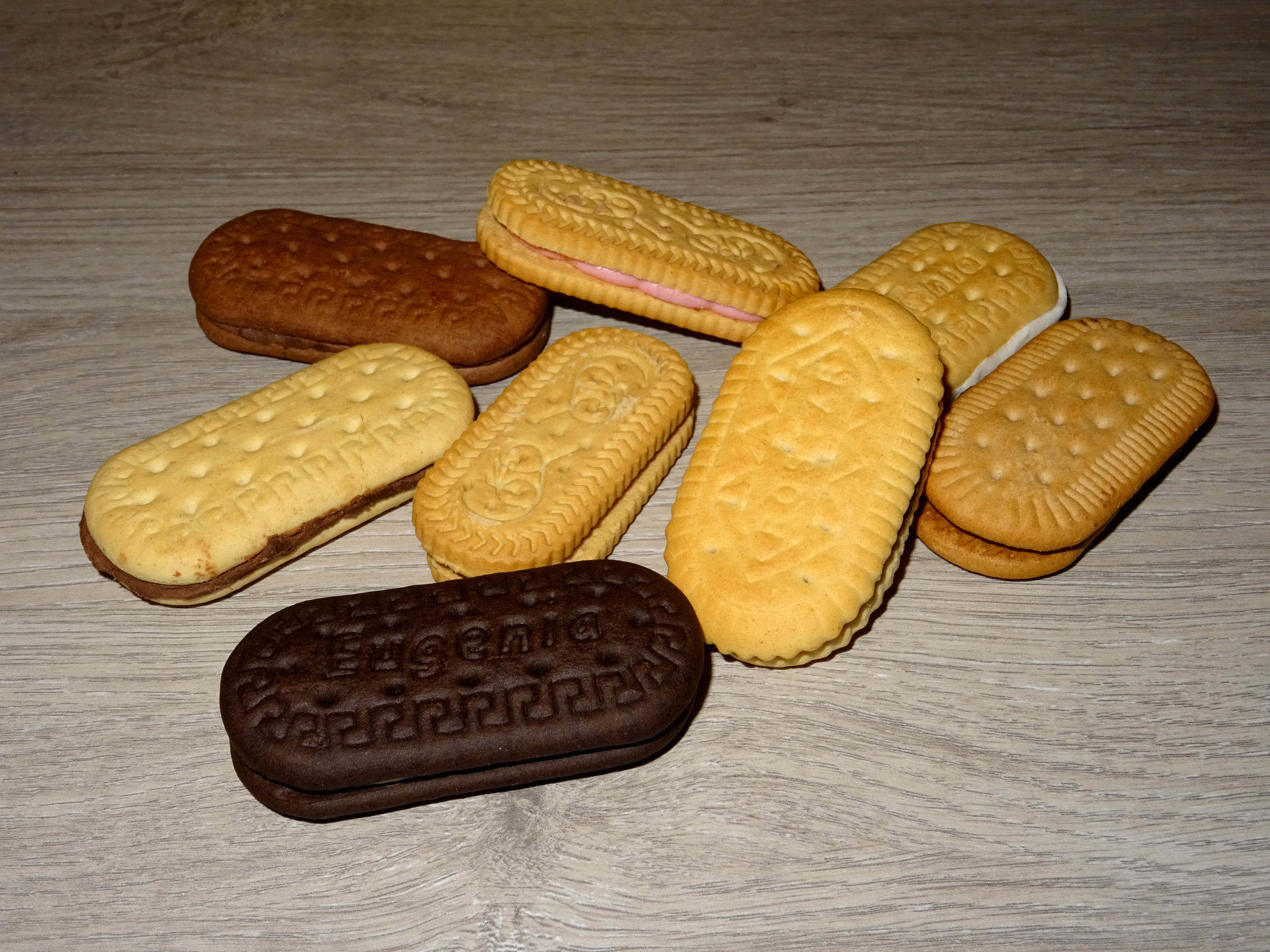 Romanian biscuit sandwiches, popularly known as "eugenia biscuits"